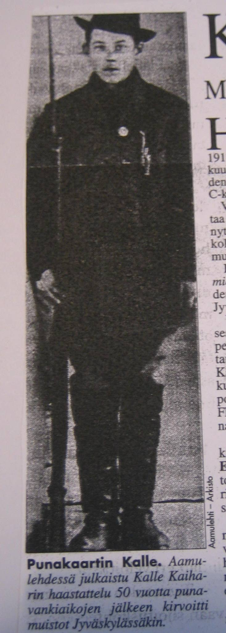 Kalle Kaihari, once a red guard in the Finnish civil war.